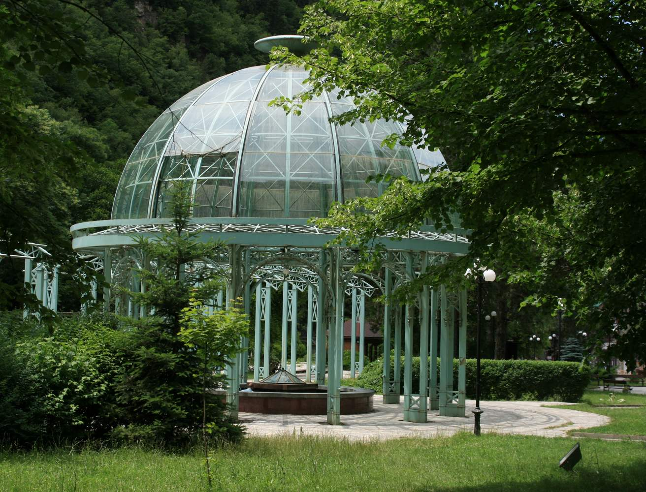 Borjomi water fountain